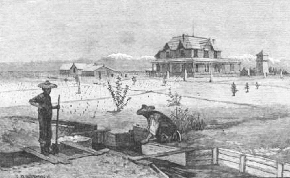 Page from book: Mexico, California and Arizona; being a new and revised edition of Old Mexico and her lost provinces. (1900)